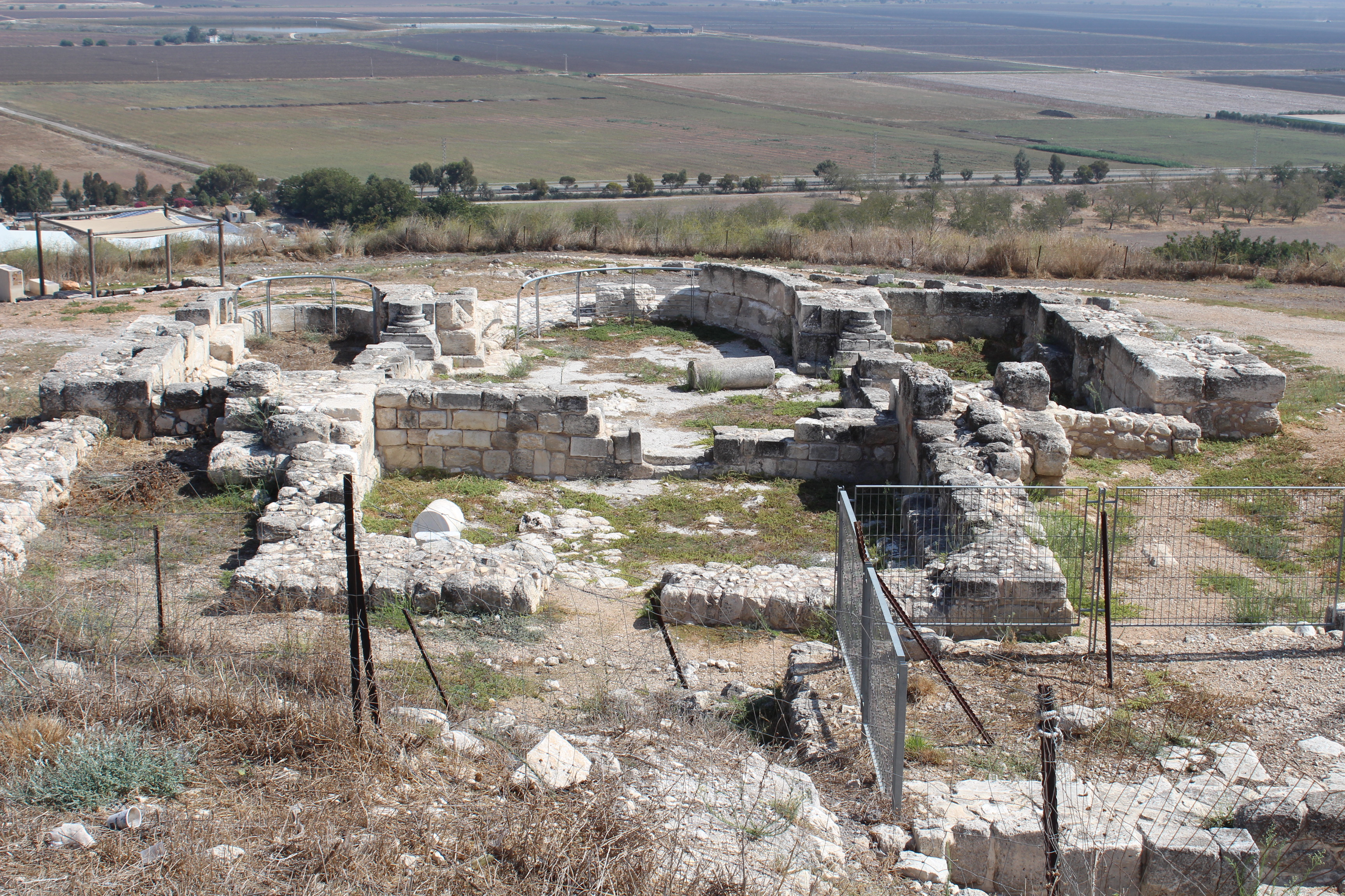 Crusader period church,Tel Yokneam The site's ID in Wiki Loves Monuments photographic competition is 16-0240-100